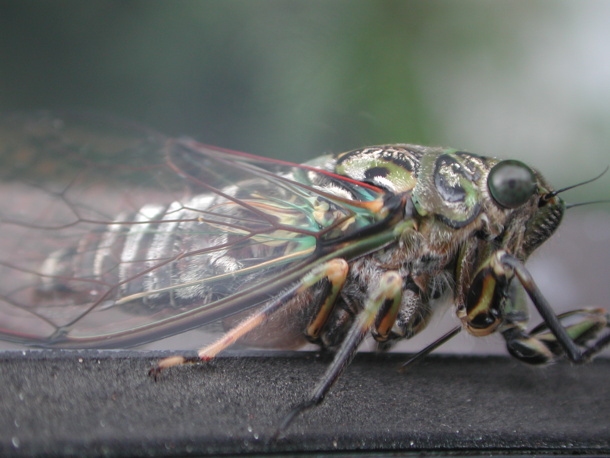 Chorus cicada from the side, viewed through the glass pane of a window, body about 2-3cm long. Photo taken in New Zealand, in summer.